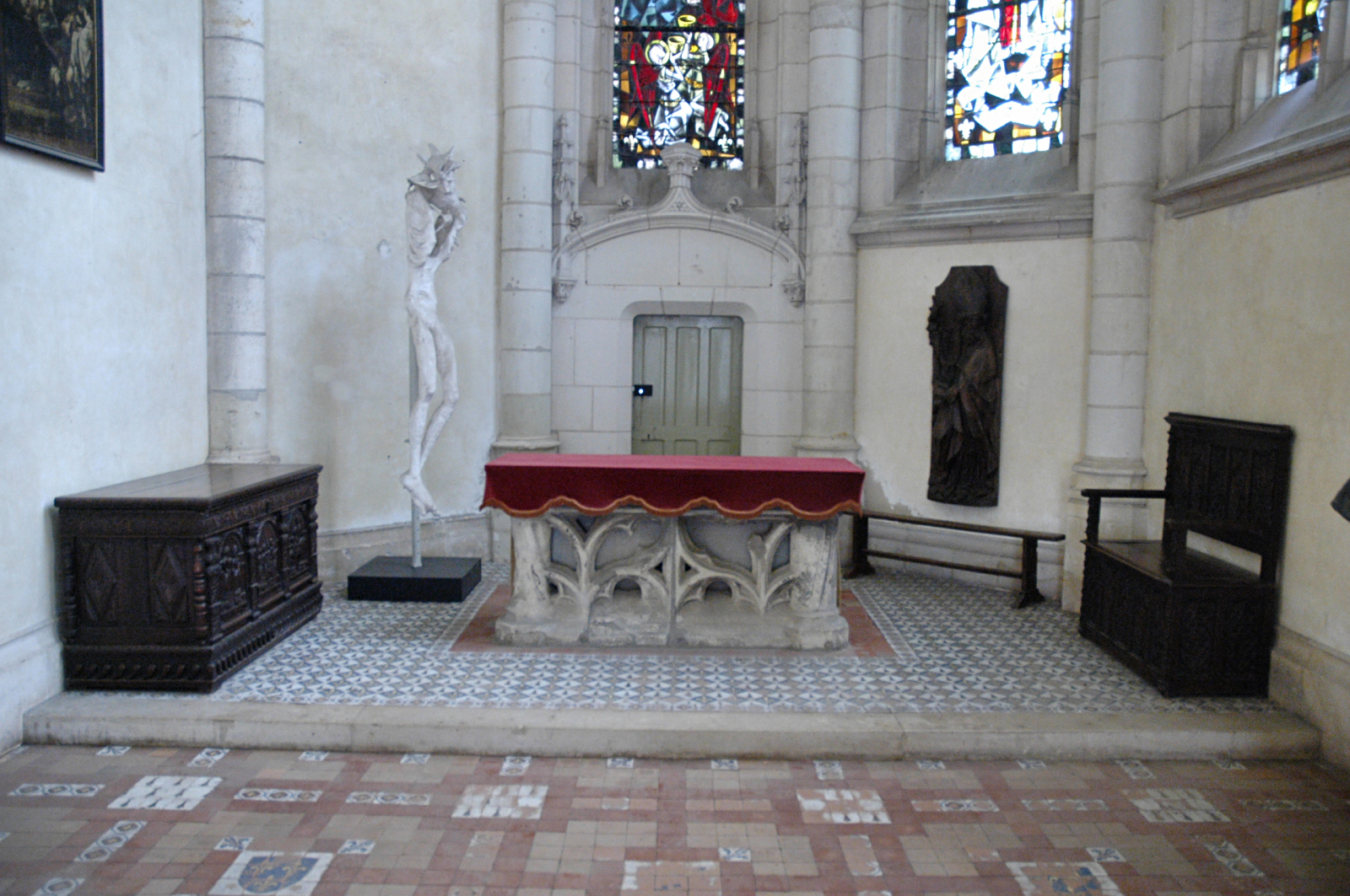 Château de Blois, interior of the castle chapel